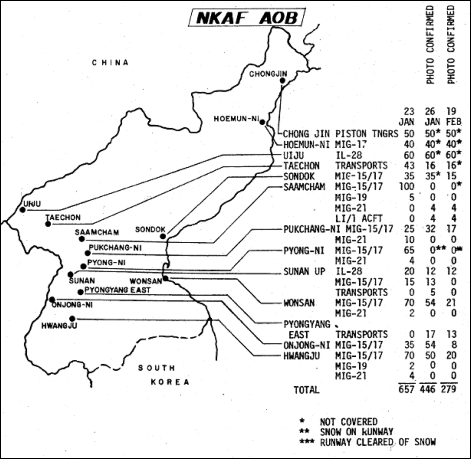 Figure 4-3 identified the Air Order of Battle (AOB) for the North Korea Air Force (NKAF) as of 23 January 1968 as shown in the Project CHECO Report: The Pueblo Incident dated 15 April 1968, pages 42-43.